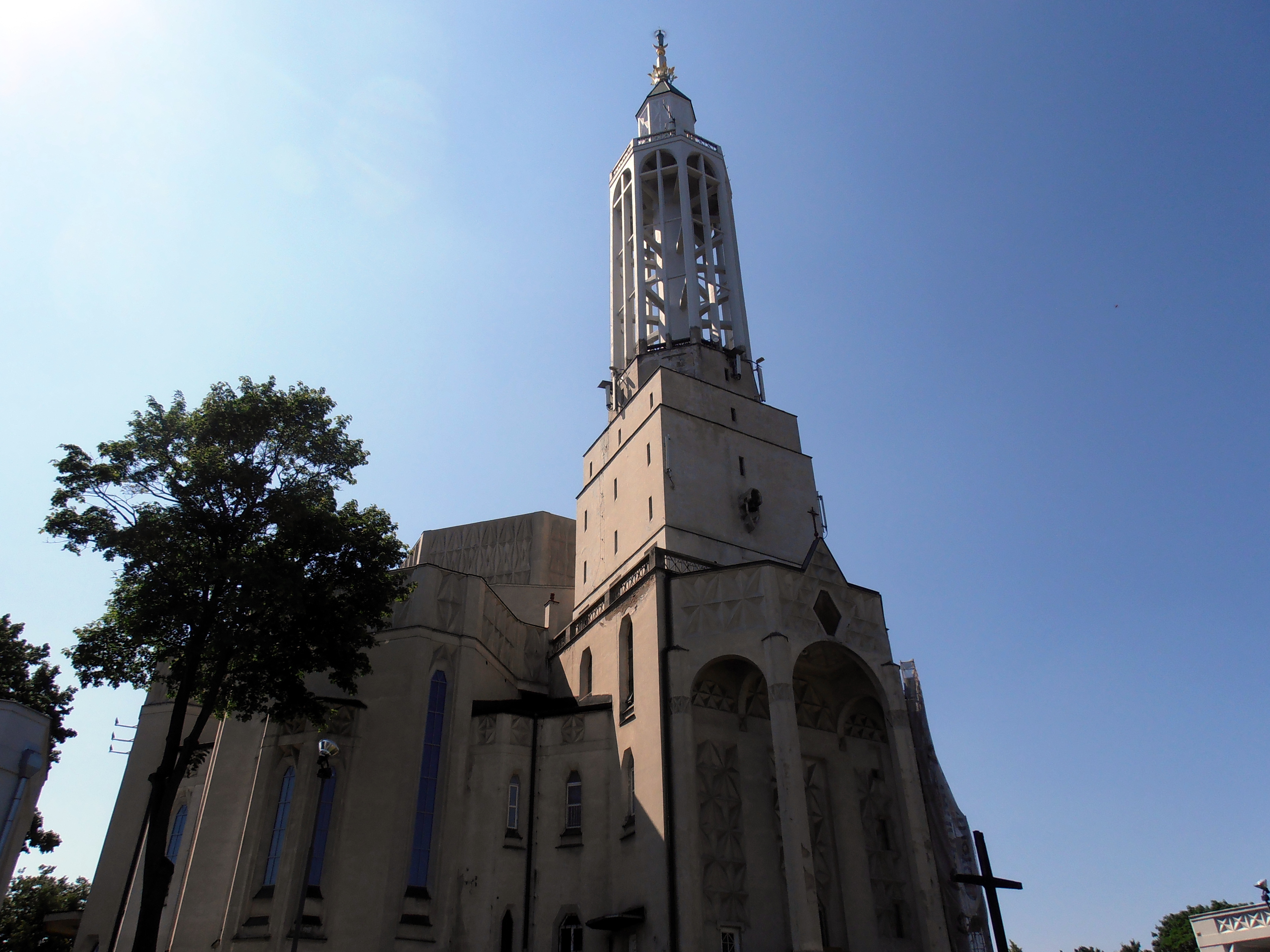 St. Roch Church in Białystok